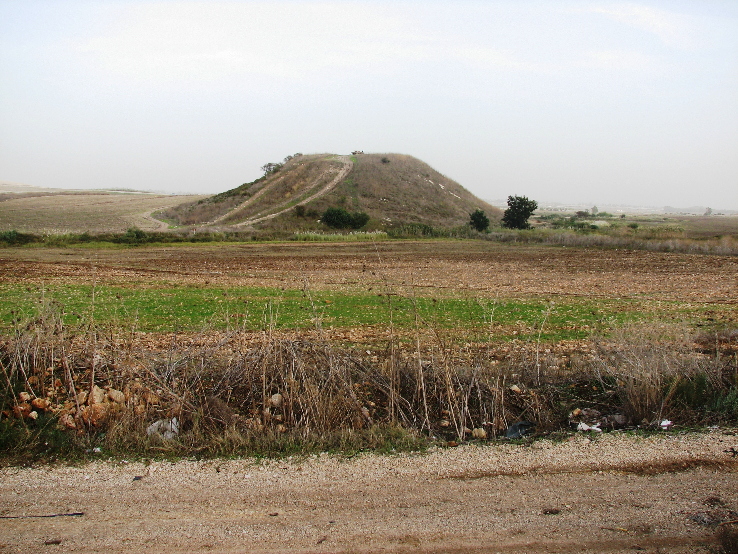 Tell Kashish